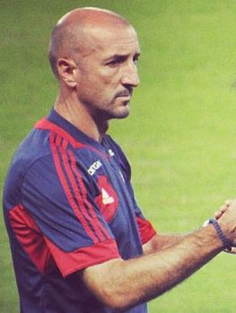 Ranko Popović from FC Tokyo